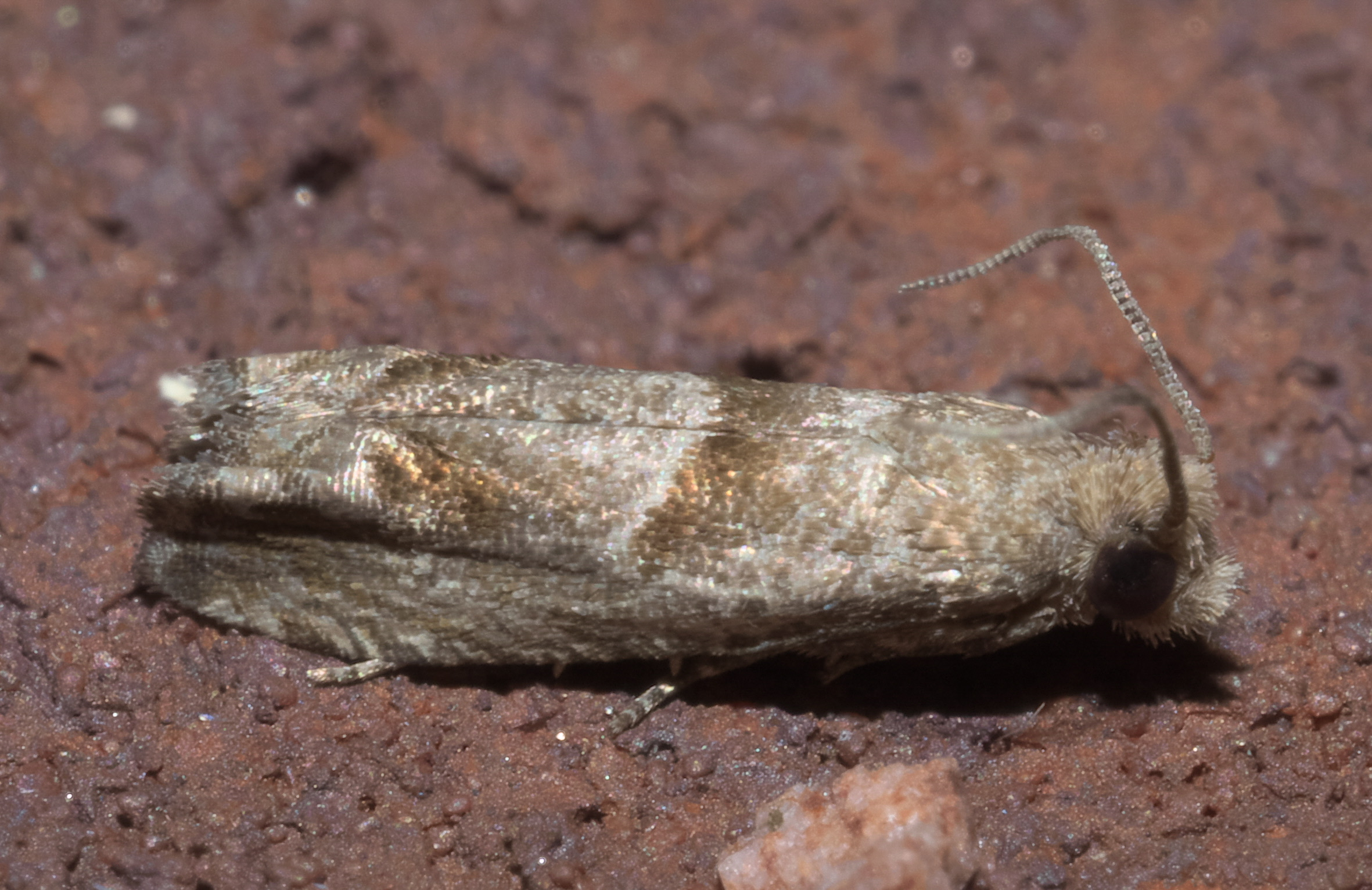 Eucosma apacheana, Hodges #2946, ID Confidence: 86